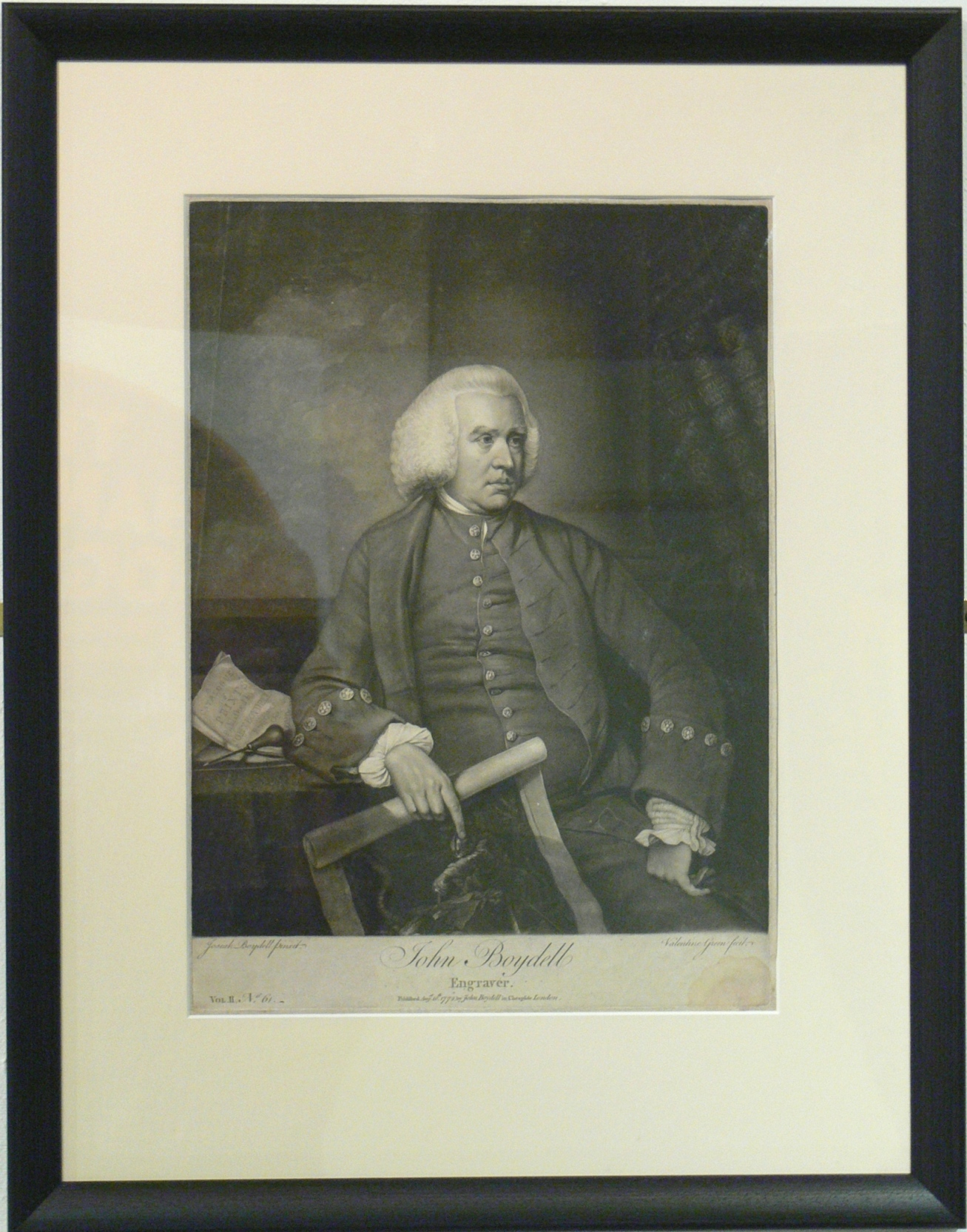 John Boydell by Valentine Green after Josiah Boydell